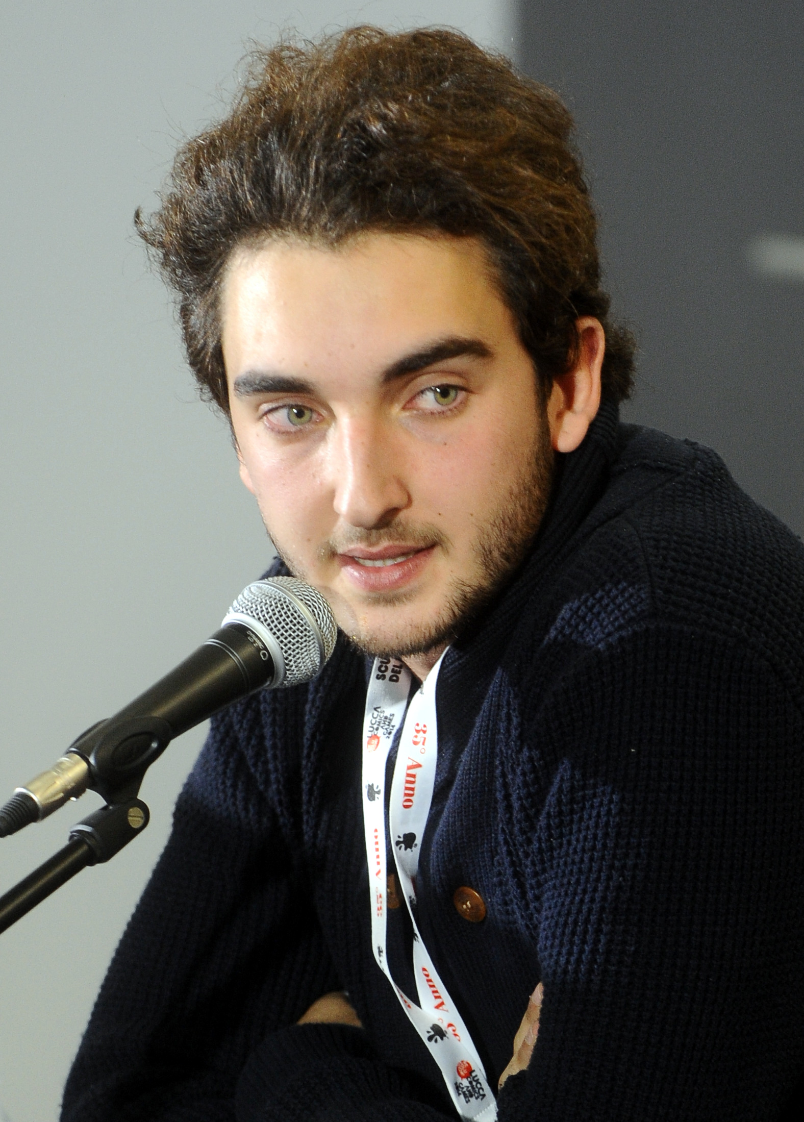 Manuel Meli at Lucca Comics & Games 2014